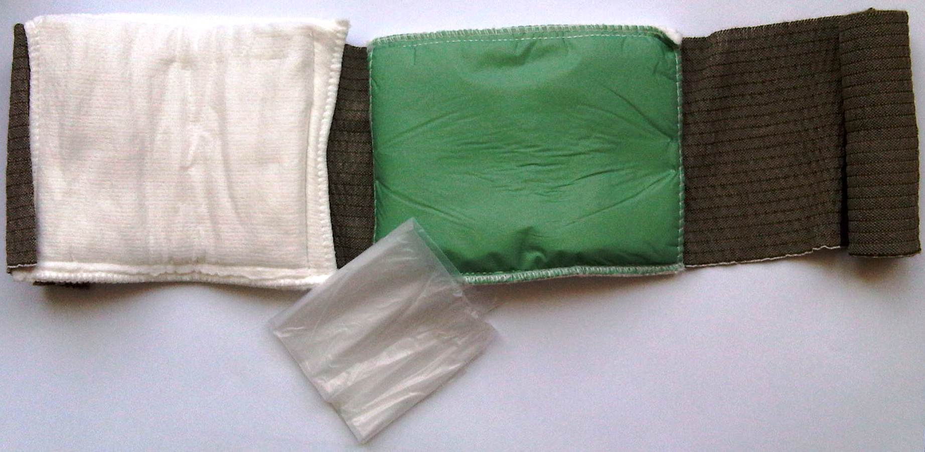 Individual dressing of W "big" type - product unfolded